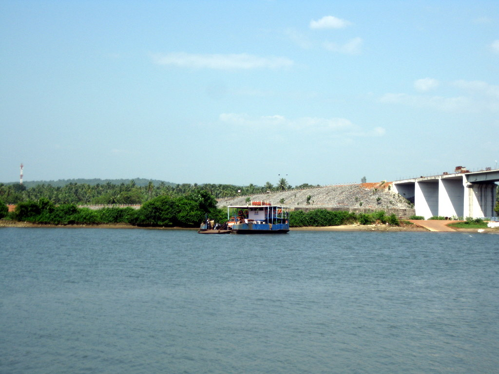 A ferry crossing Terekhol River from Aronda side near Kiranpani. The bridge on the right is being constructed to join the two banks.